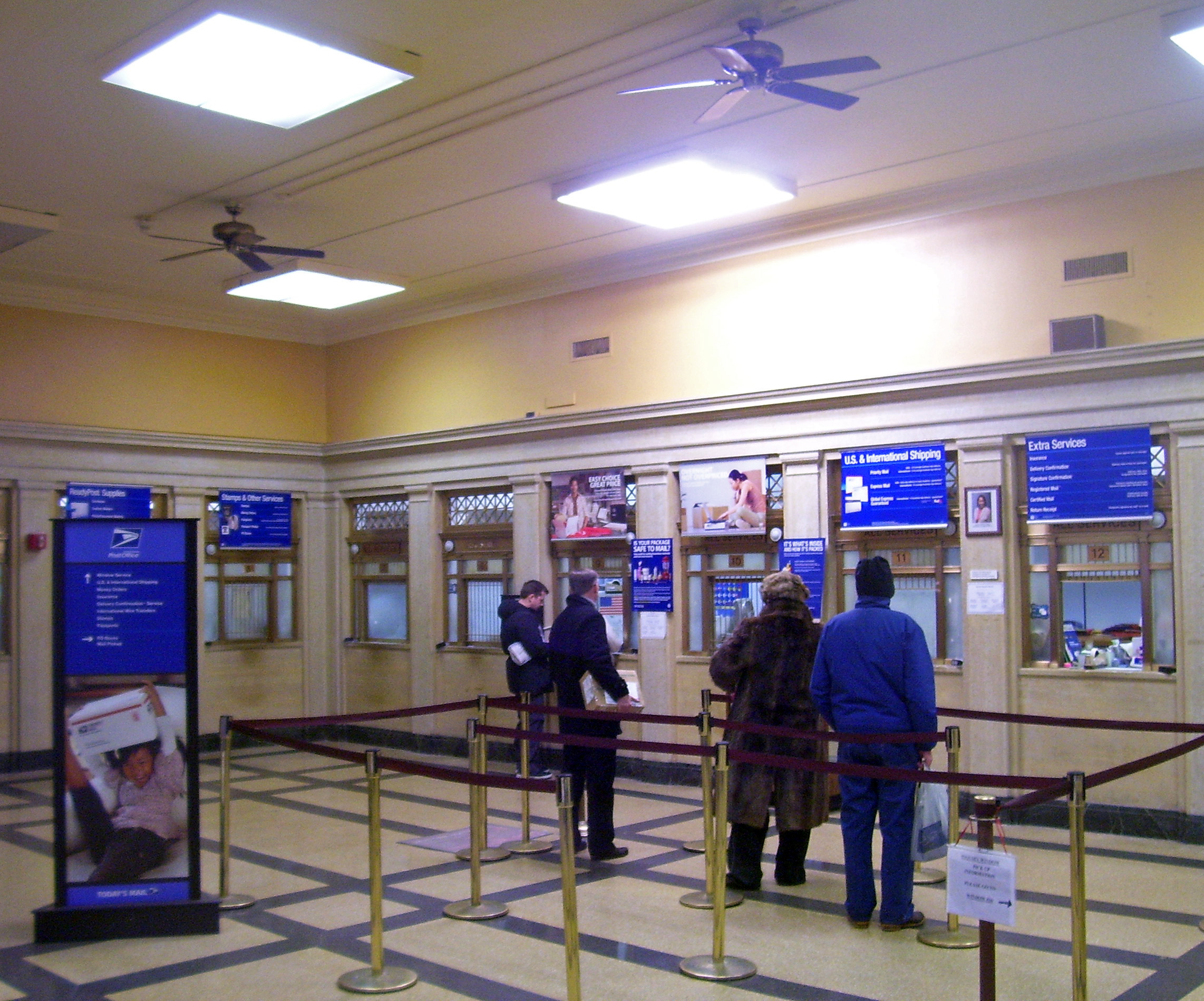 Lobby of Lenox Hill post office on the Upper East Side of Manhattan